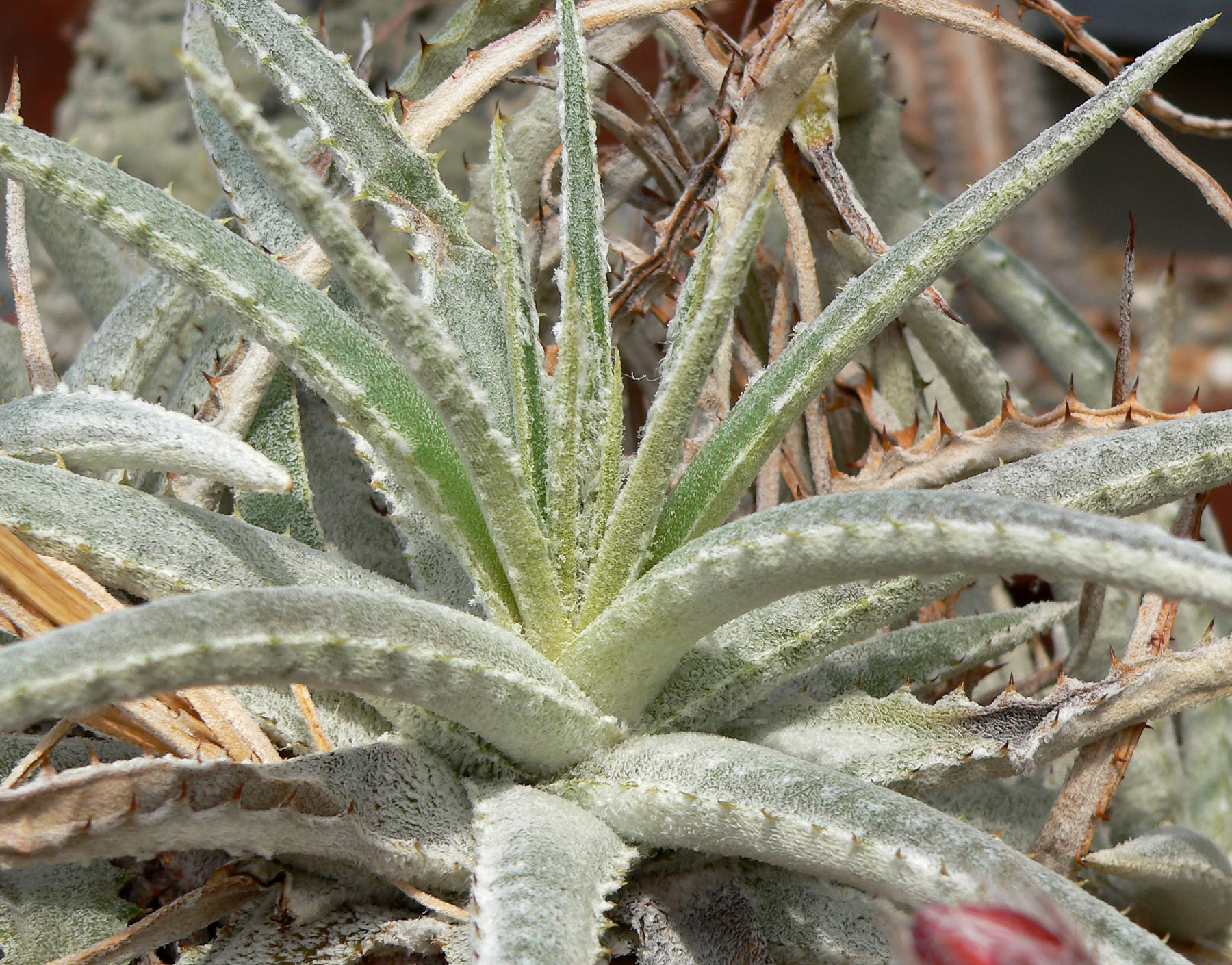 Hechtia marnier-lapostollei at the University of California Botanical Garden, Berkeley, California